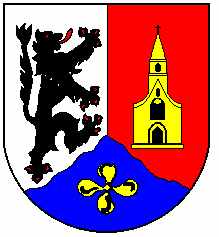 Wappen Spay (Germany).